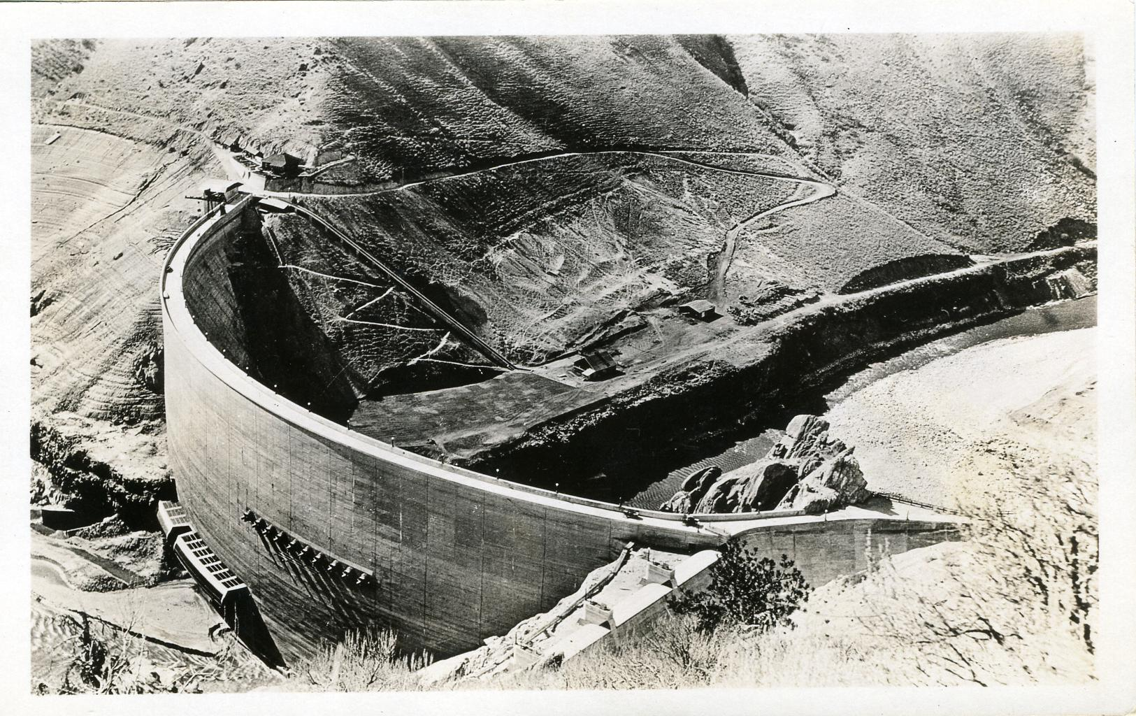 Arrowrock Dam prior to reservoir fill.